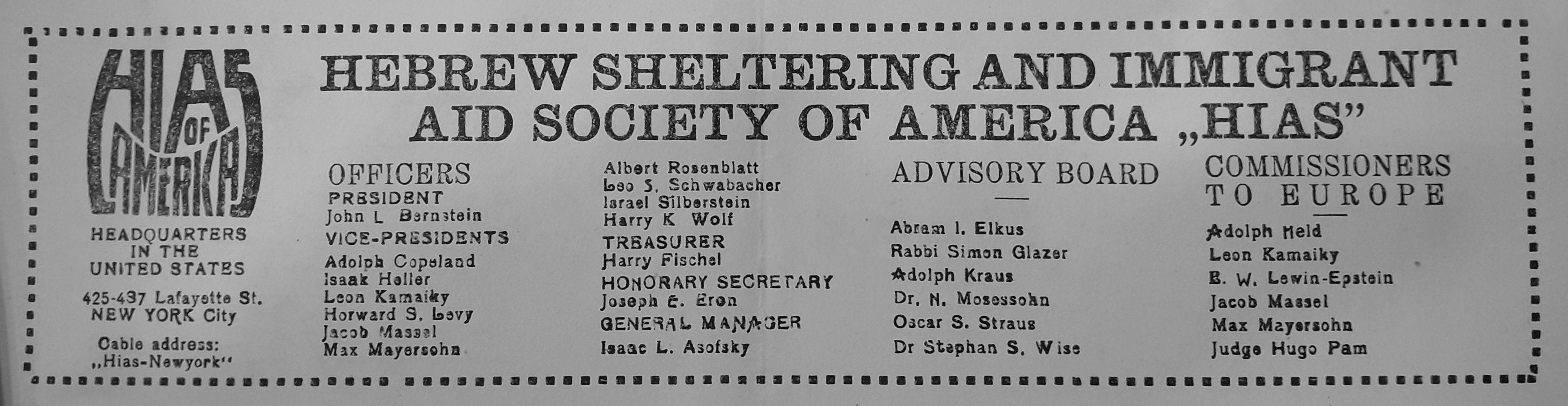 HIAS Hebrew Immigrant Aid Society, letterhead from letter paper from 1925